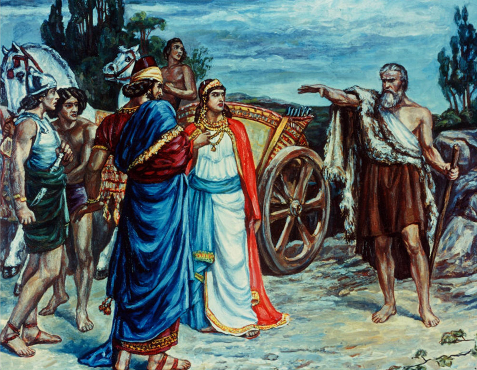 Jezabel and Ahab Meeting Elijah in Naboth's Vineyard Giclee. Print by Sir Frank Dicksee.